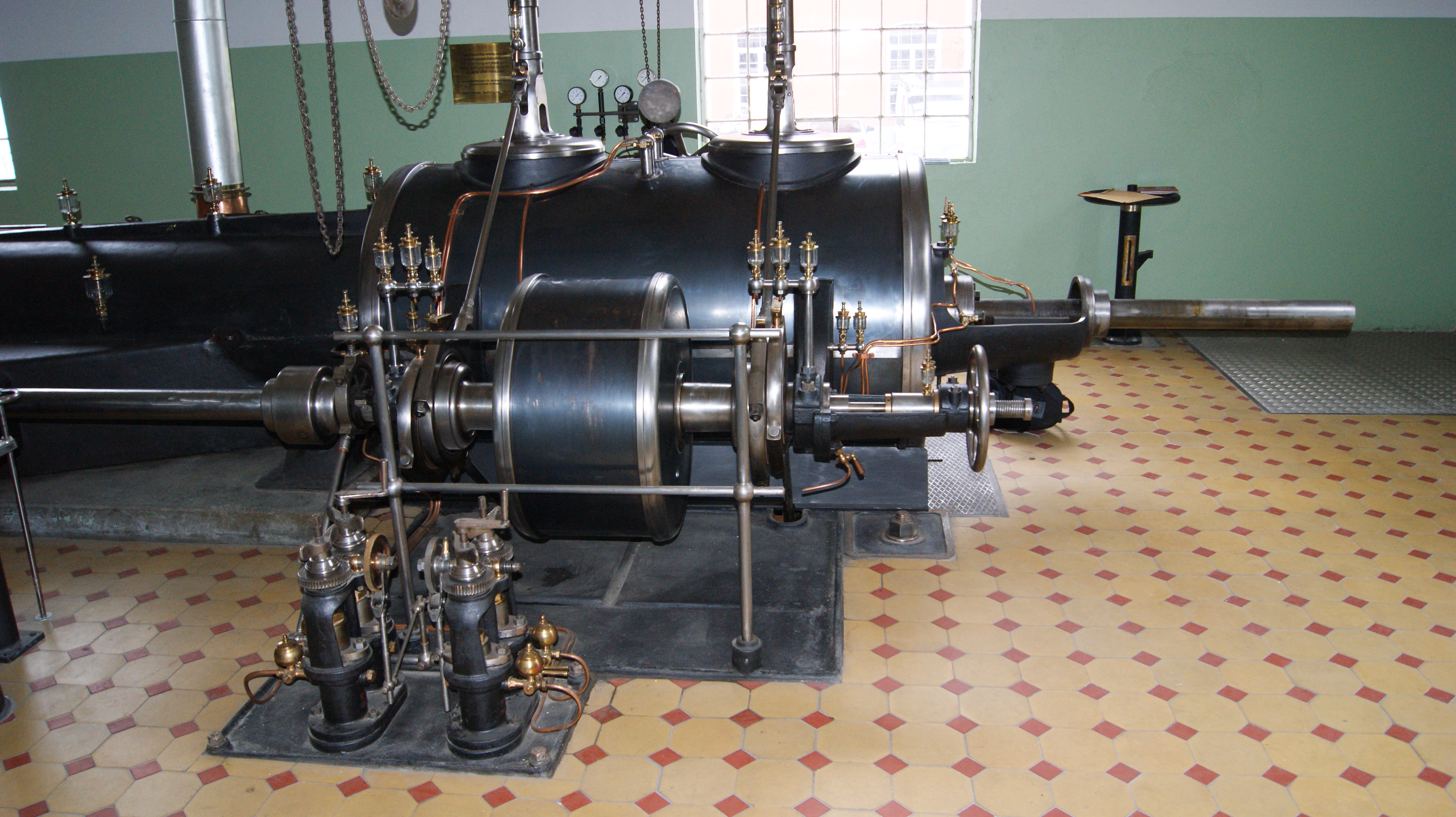 Steam engine Rhombergs Fabrik - centrifugal force controller in the front, background the steam engine piston.